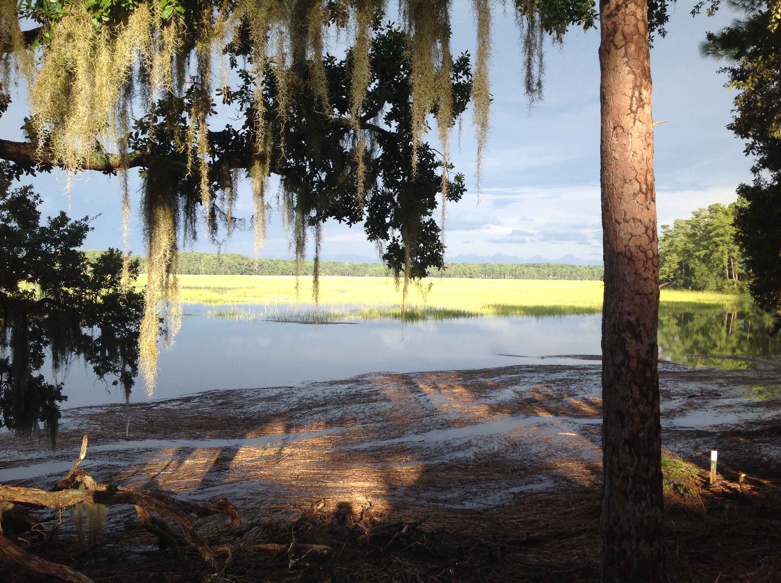 Golden Marsh view of the north side of Callawassie Island over the Little Chechessee River.